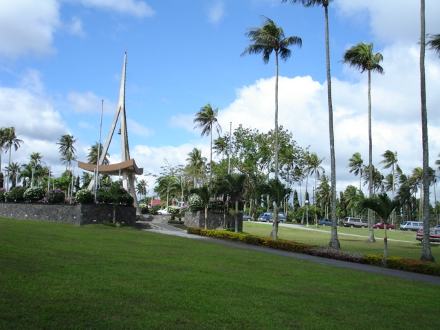 View of AIIAS Bell tower from Hardinge Library